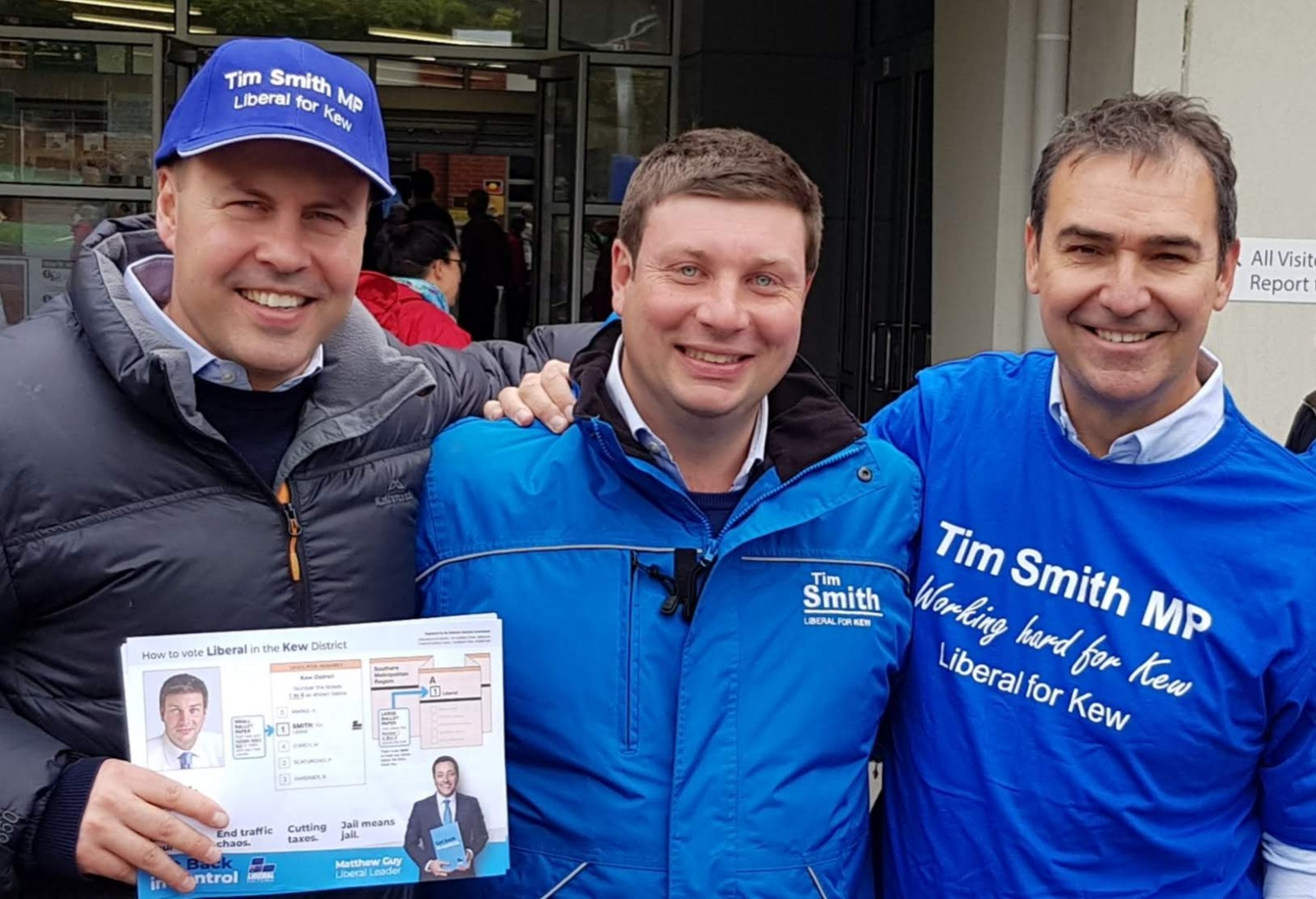 Treasurer Josh Frydenberg with Tim Smith MP and SA Premier Steven Marshall on Victoria State election day 24 November 2018